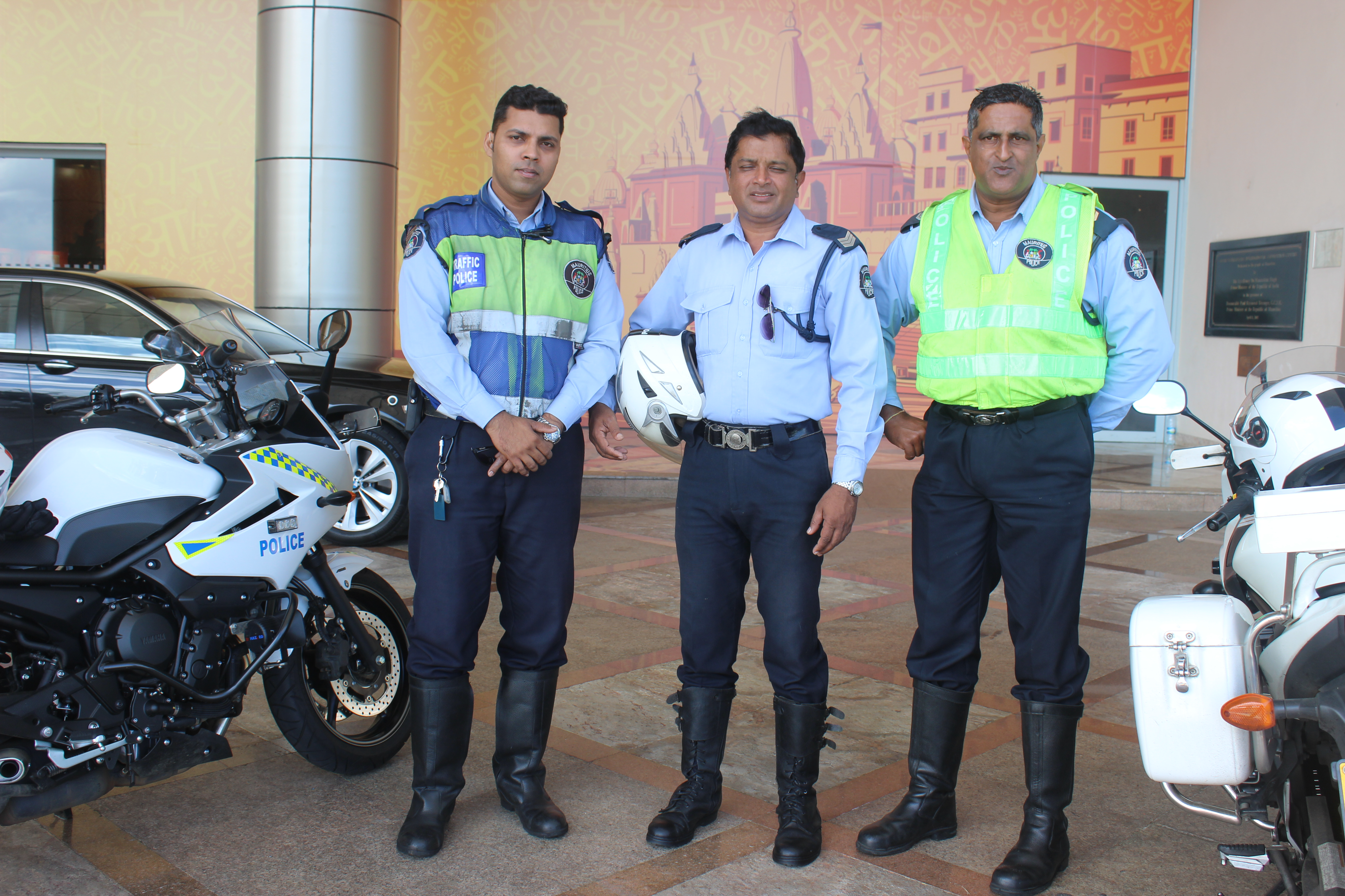 Police officers in Mauritius